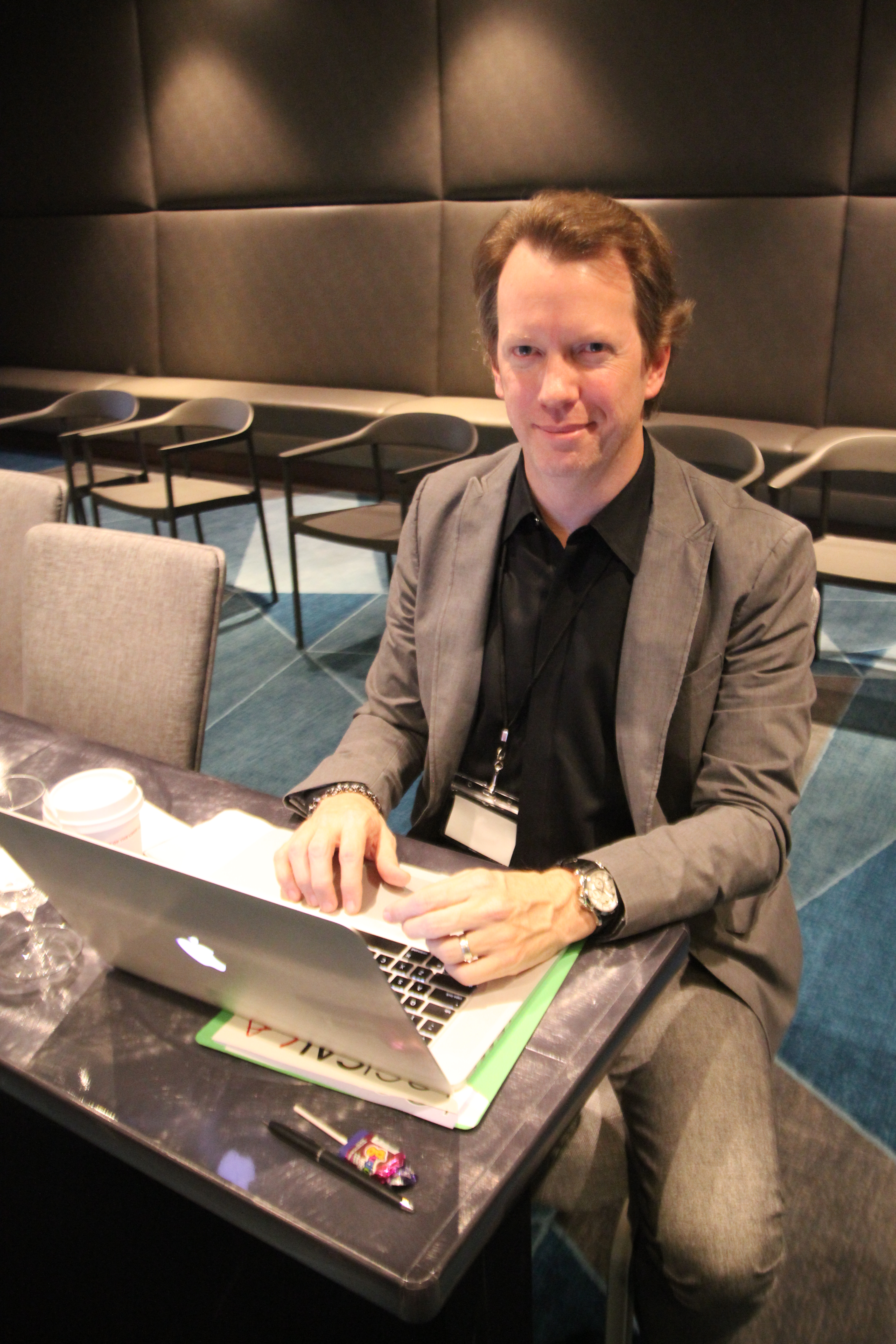 Preparing for his lecture